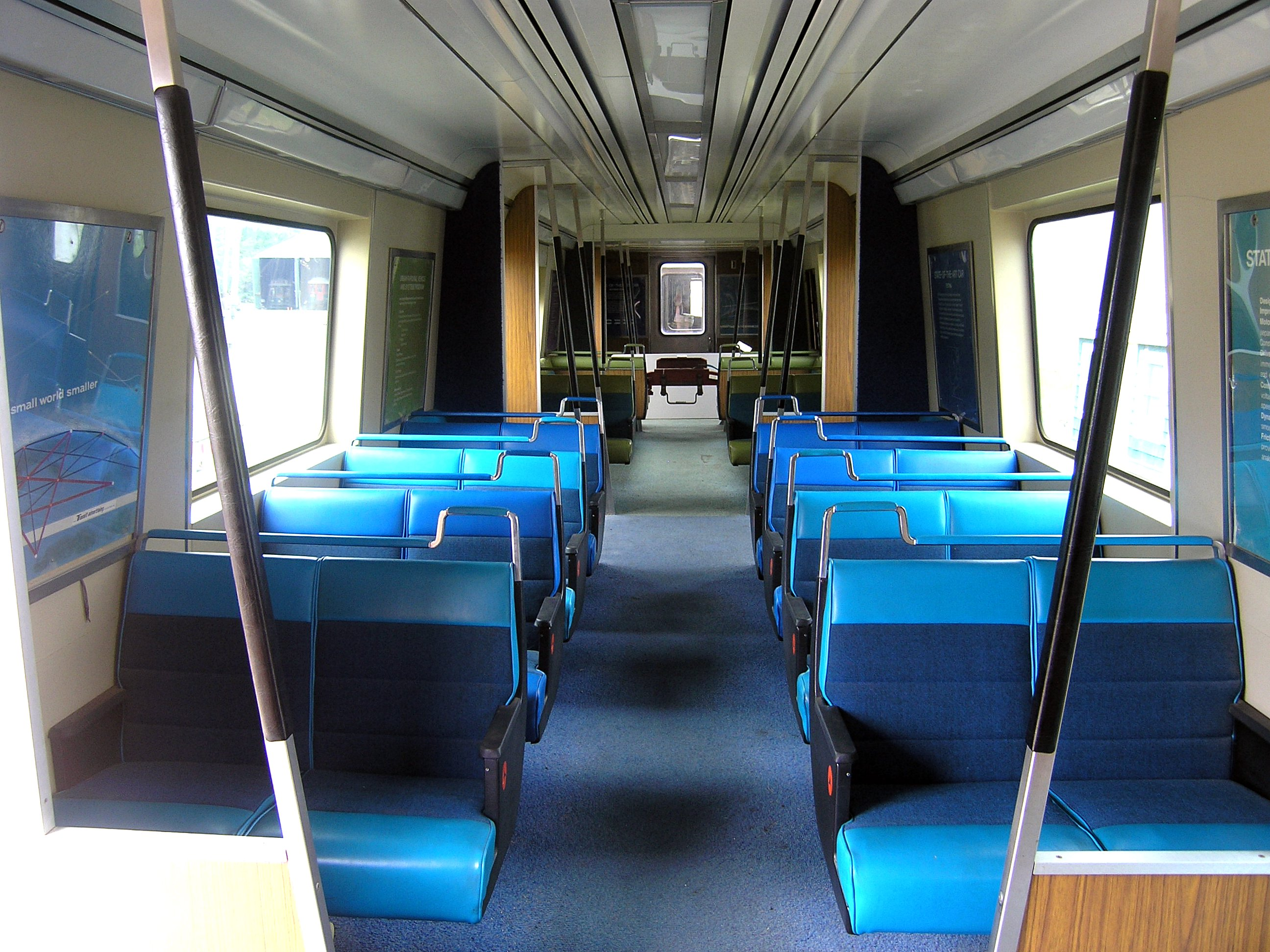 Interior view of the low-density compartment of the SOAC (State of the Art Car) rapid transit car from 1972. Seashore Trolley Museum.